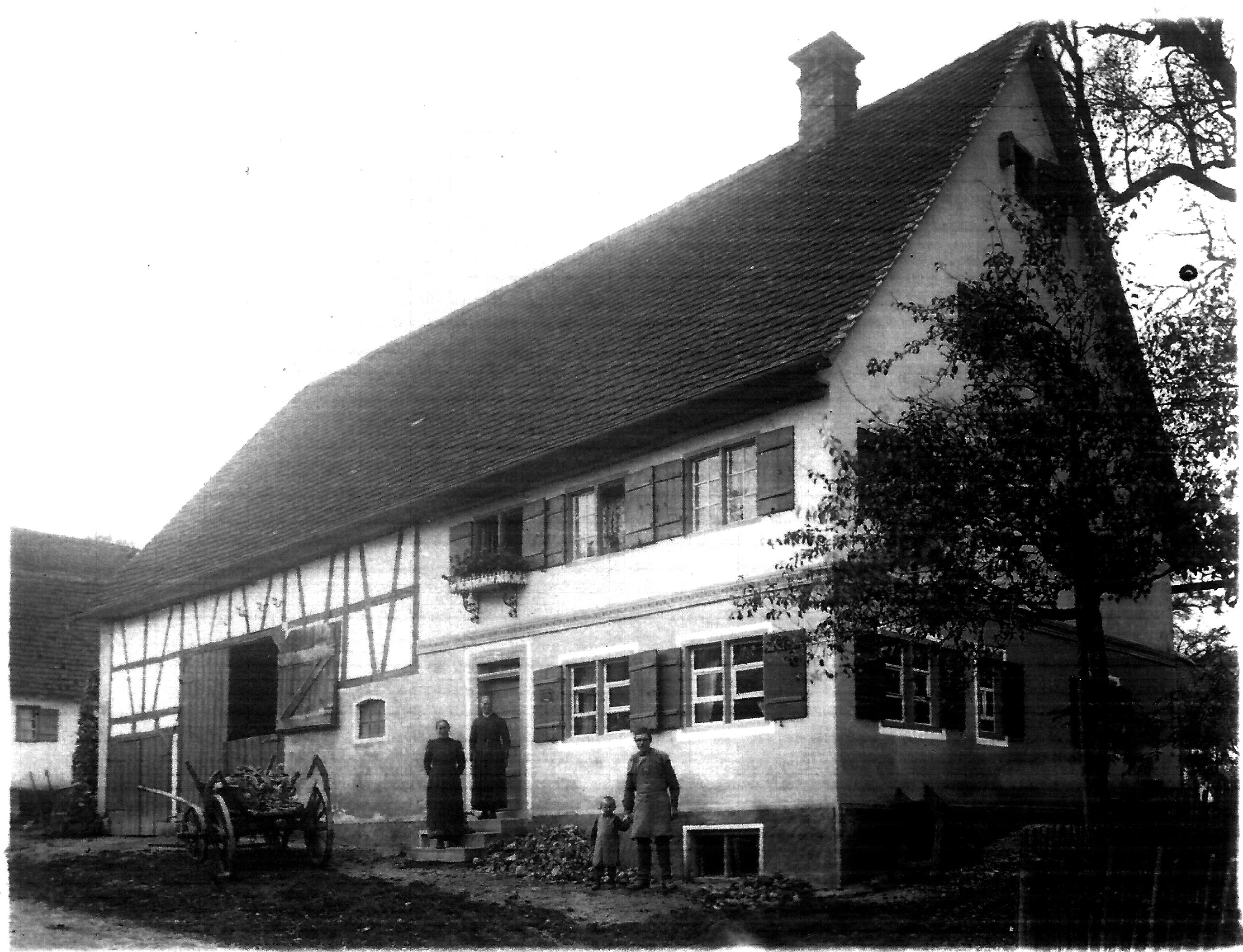 image: J.Walchers Geburtshaus in Wain, Poststr .jpg Place of birth: J.Walchers birth house, Wain, Poststr .jpg (Jacob Walcher, German Socialist-Leader)